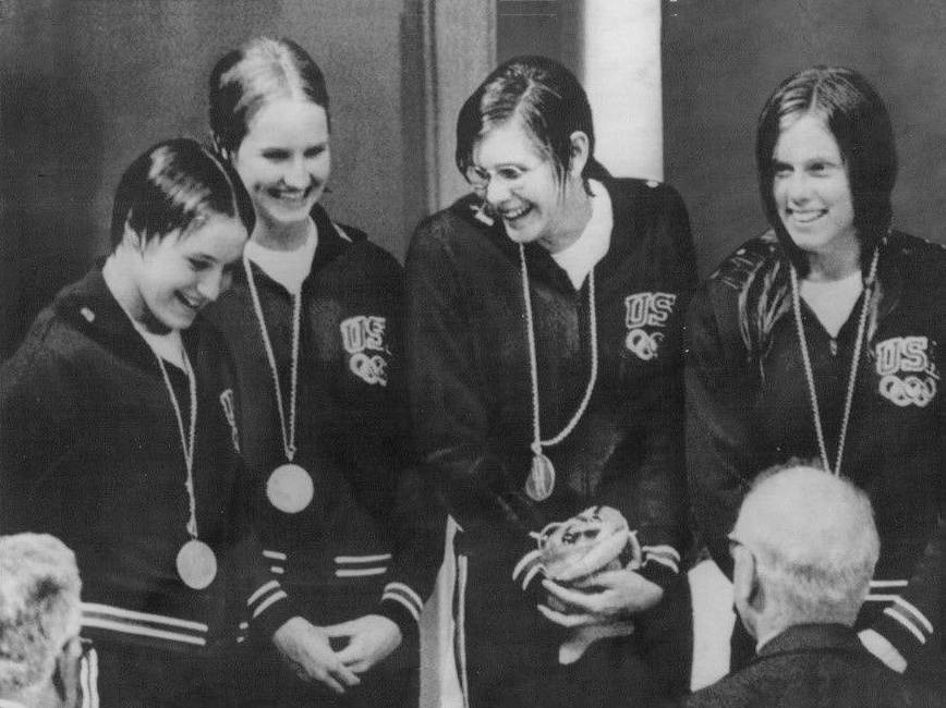 LG17 '72 Wire Photo DEARDRUFF NEILSON BELOTE CARR Olympic Record Gold Medal Swim